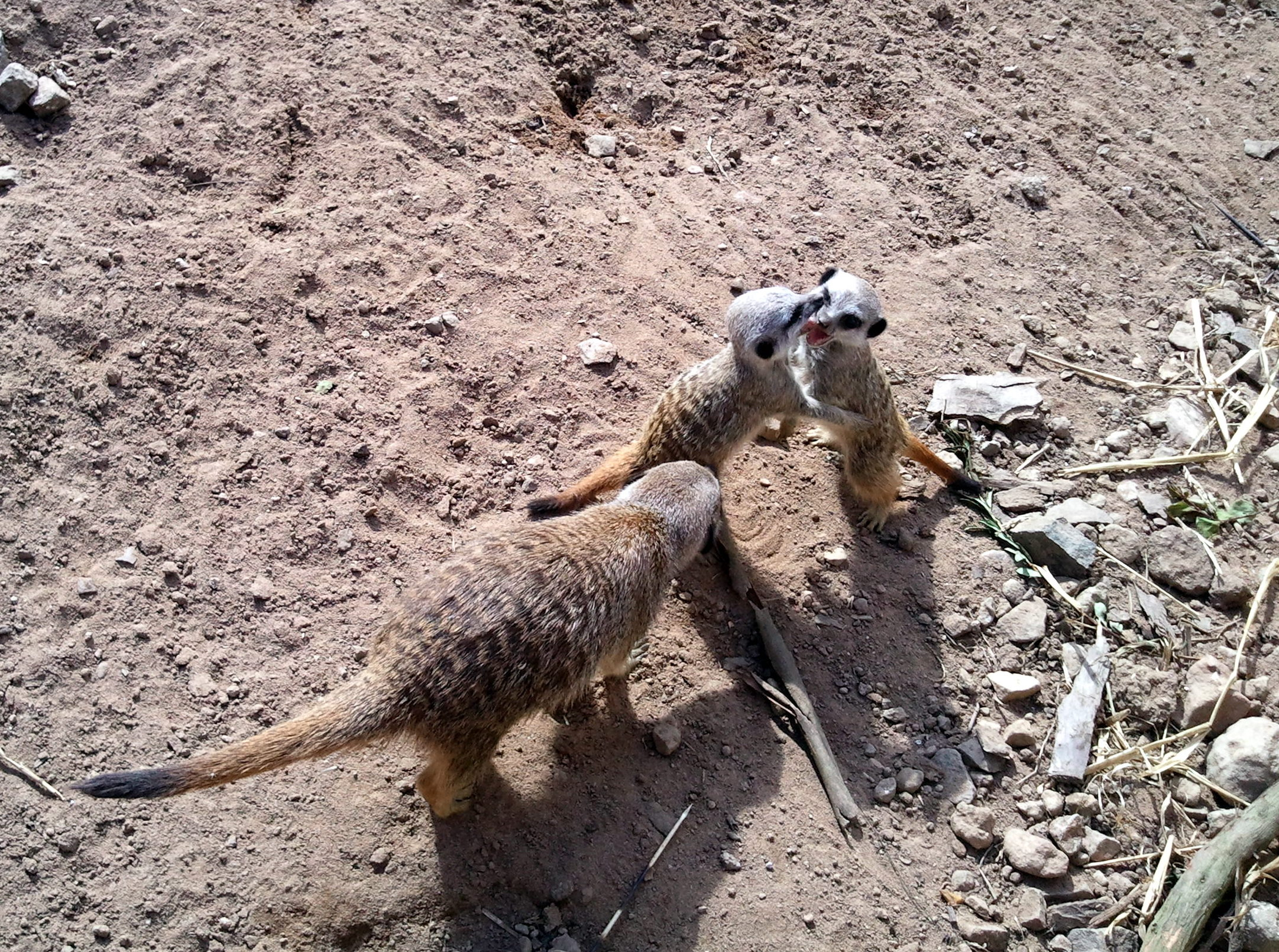 Meerkats at Belfast Zoo, Northern Ireland.